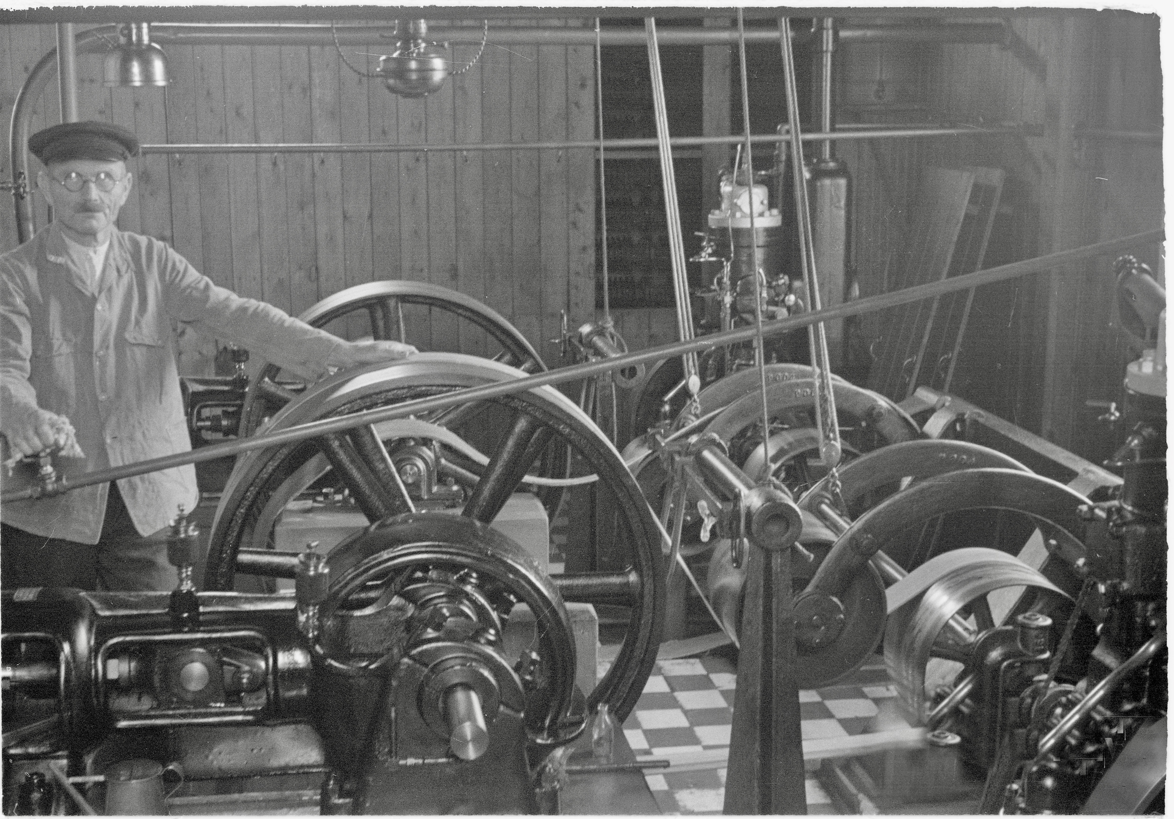 "The marine pilots' duties at Kobba Klintar: The foghorn's machine room". Picture by Fenrik L. Zilliacus.